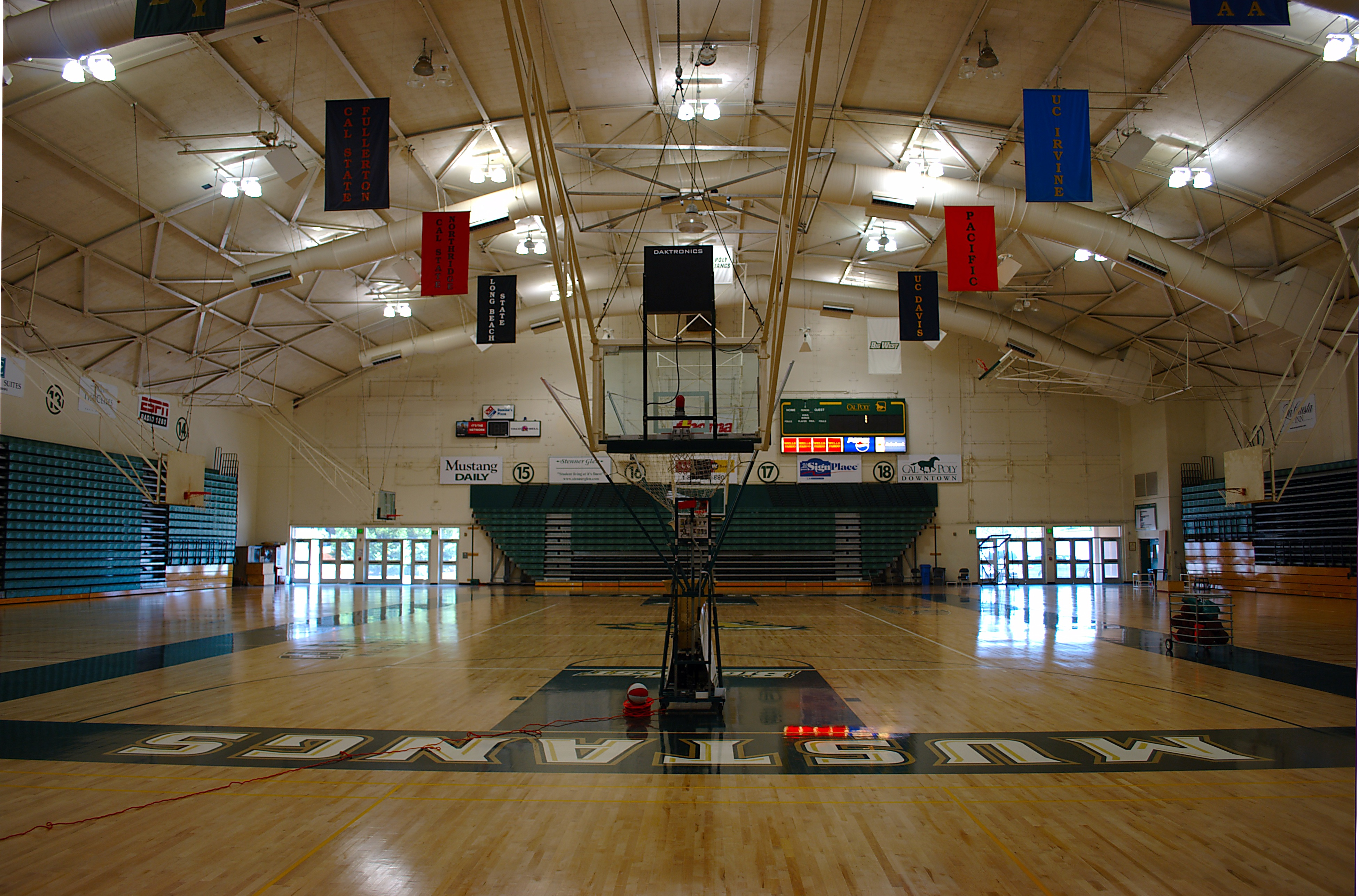 Mott Gym, Cal Poly, San Luis Obispo, California